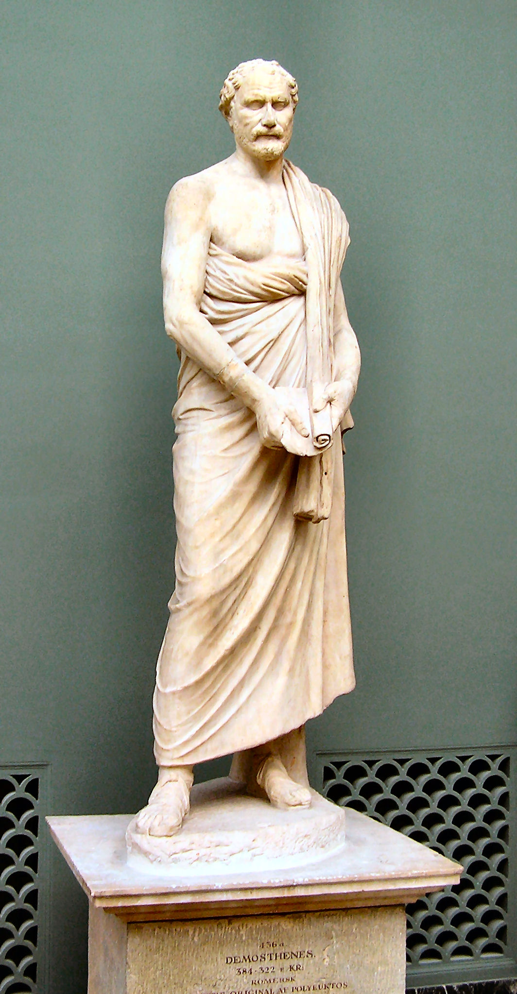 Demosthenes. Marble, Roman copy after an original by Polyeuktos (ca. 280). Ny Carlsberg Glyptotek, Inv. 2782. H. 2.02 m (6 ft. 7 ½ in.).